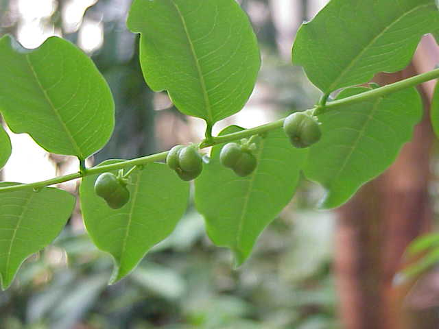 Species: Phyllanthus juglandifolius Family: Euphorbiaceae Image No. 1